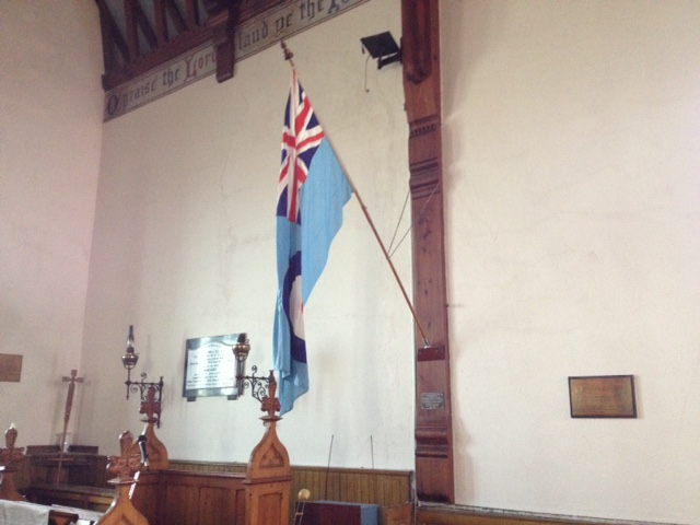 RAF Ensign on display in St Andrew's Church, Andreas, Isle of Man.